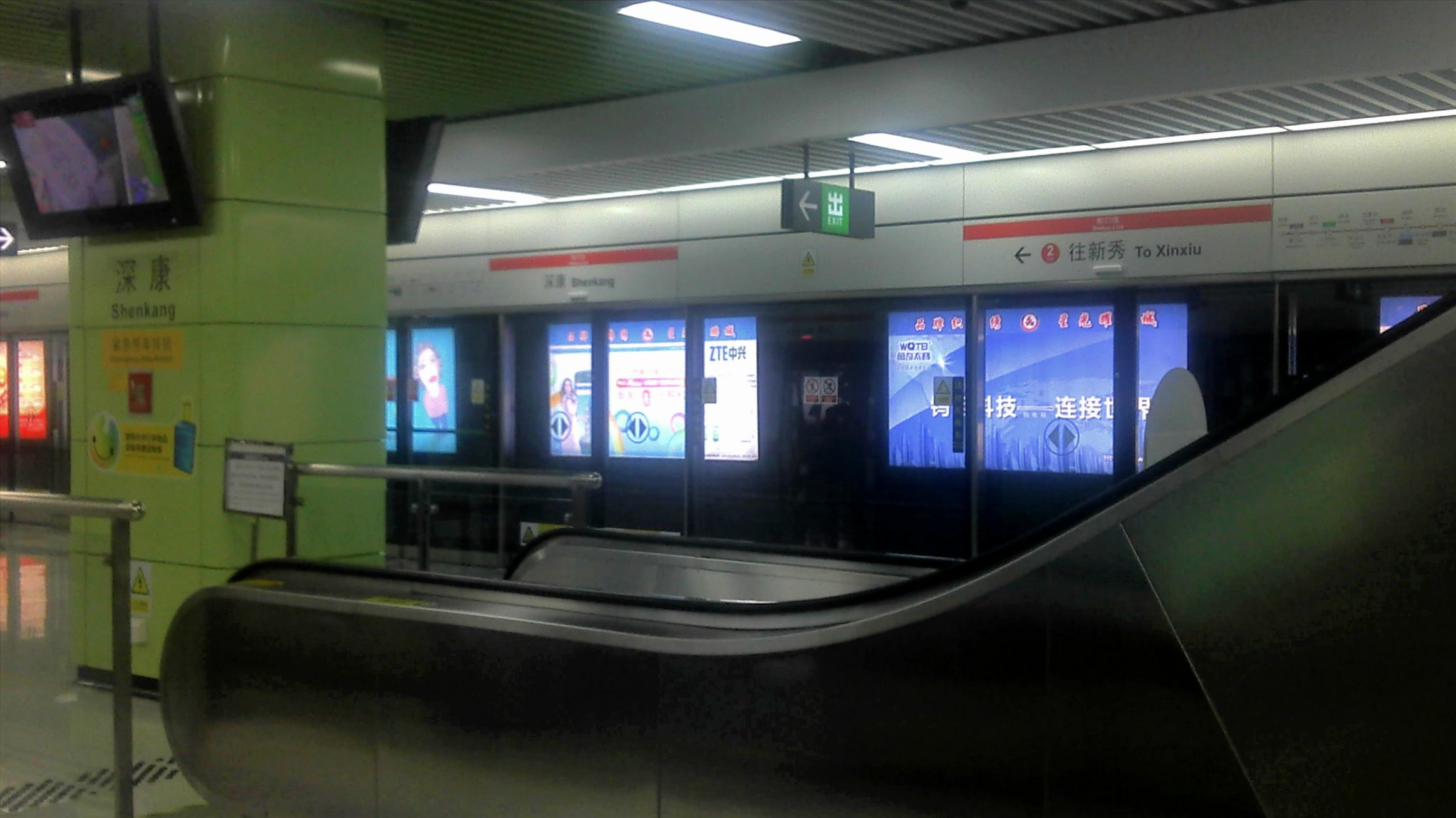 This photo was taken as Oct 22, 2011.